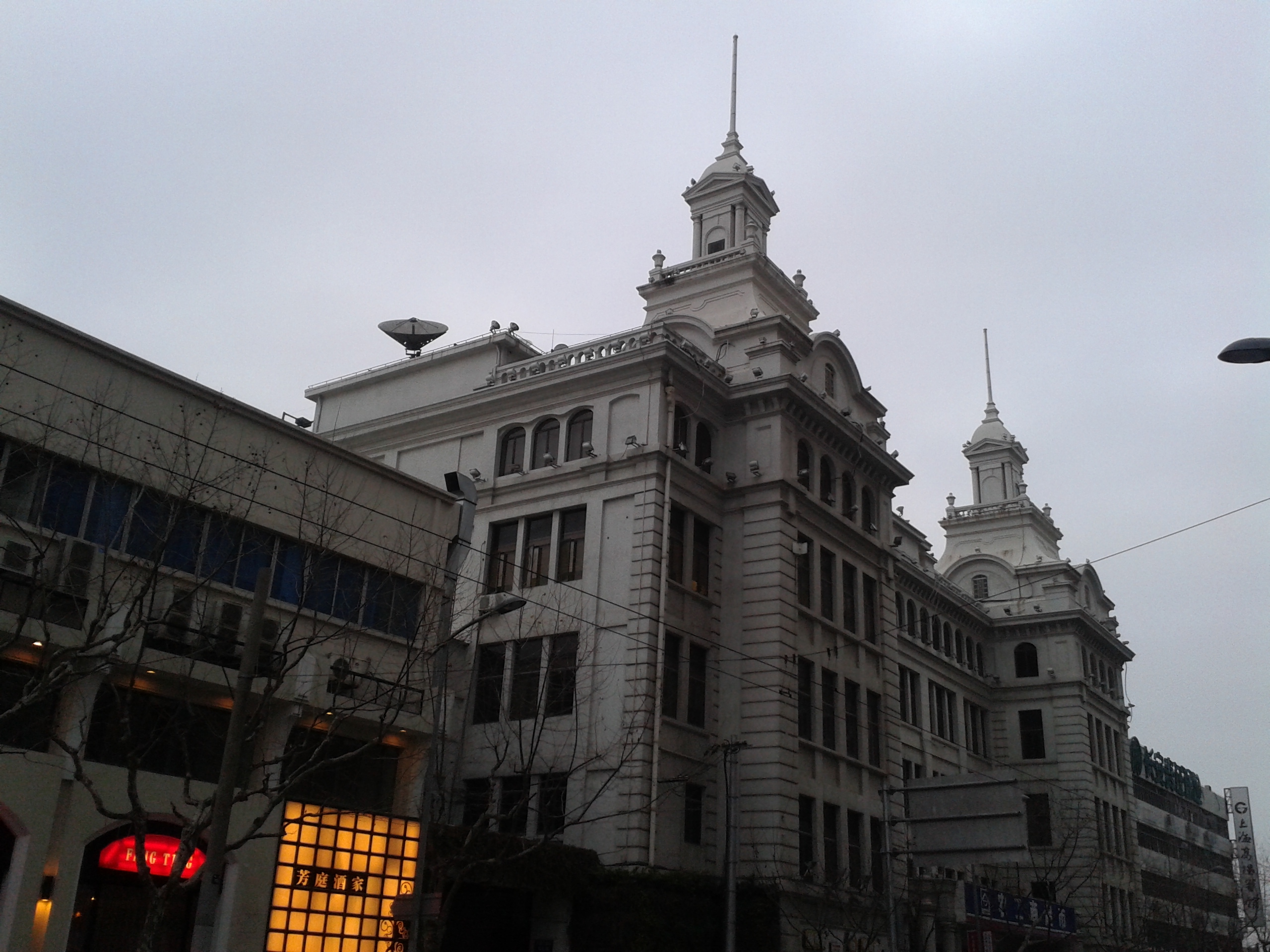 第二批上海市优秀历史建筑，原南洋兄弟煙草公司